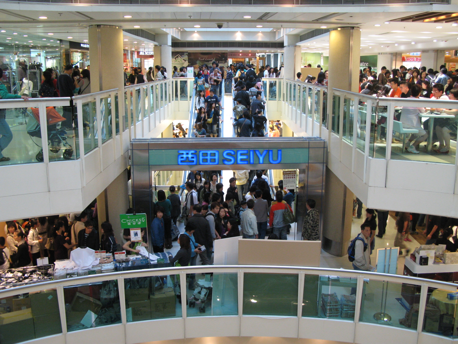 HK Seiyu Department Store Final Reduction in 2007